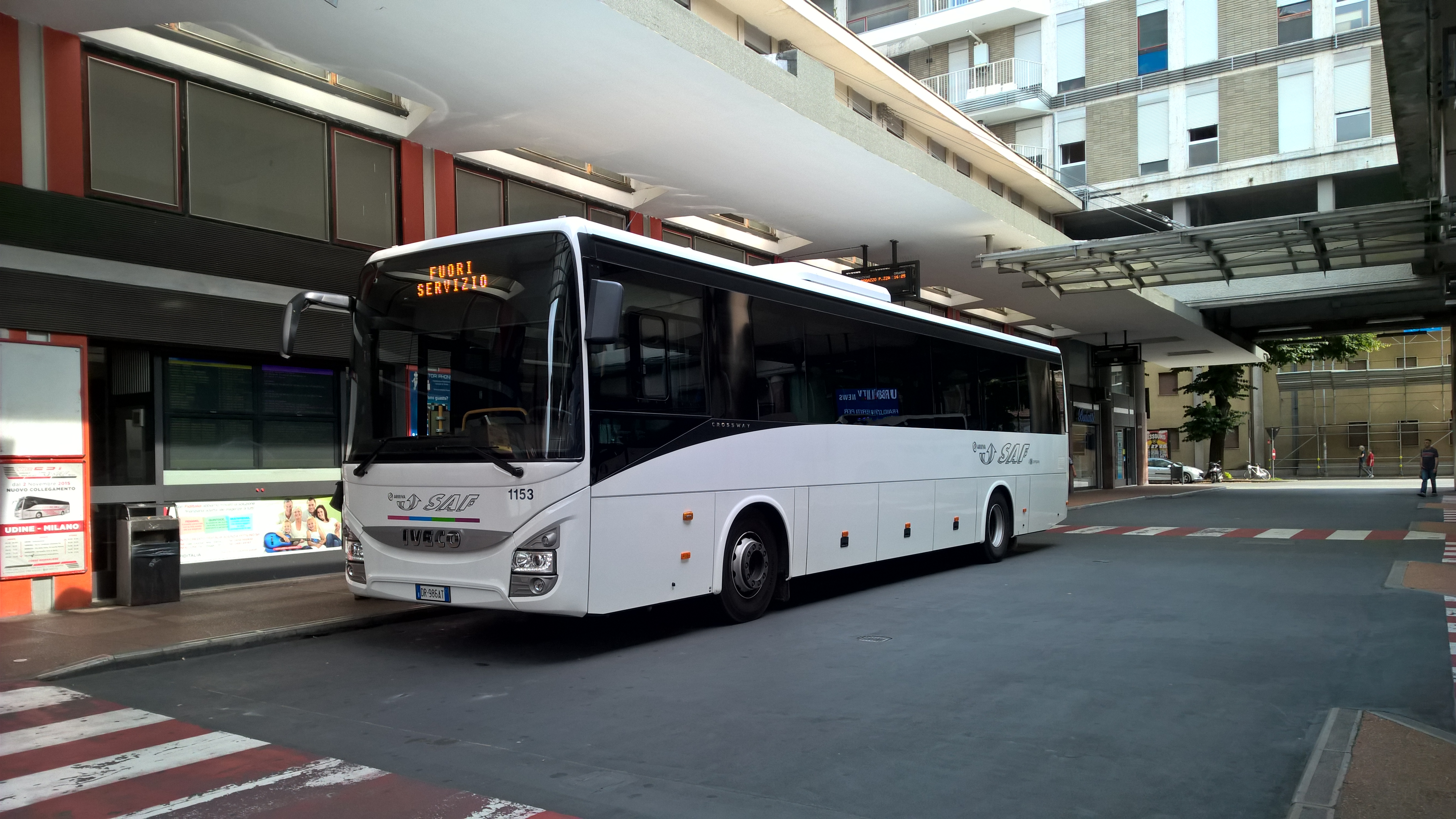 Ivecobus Crossway Pro SAF